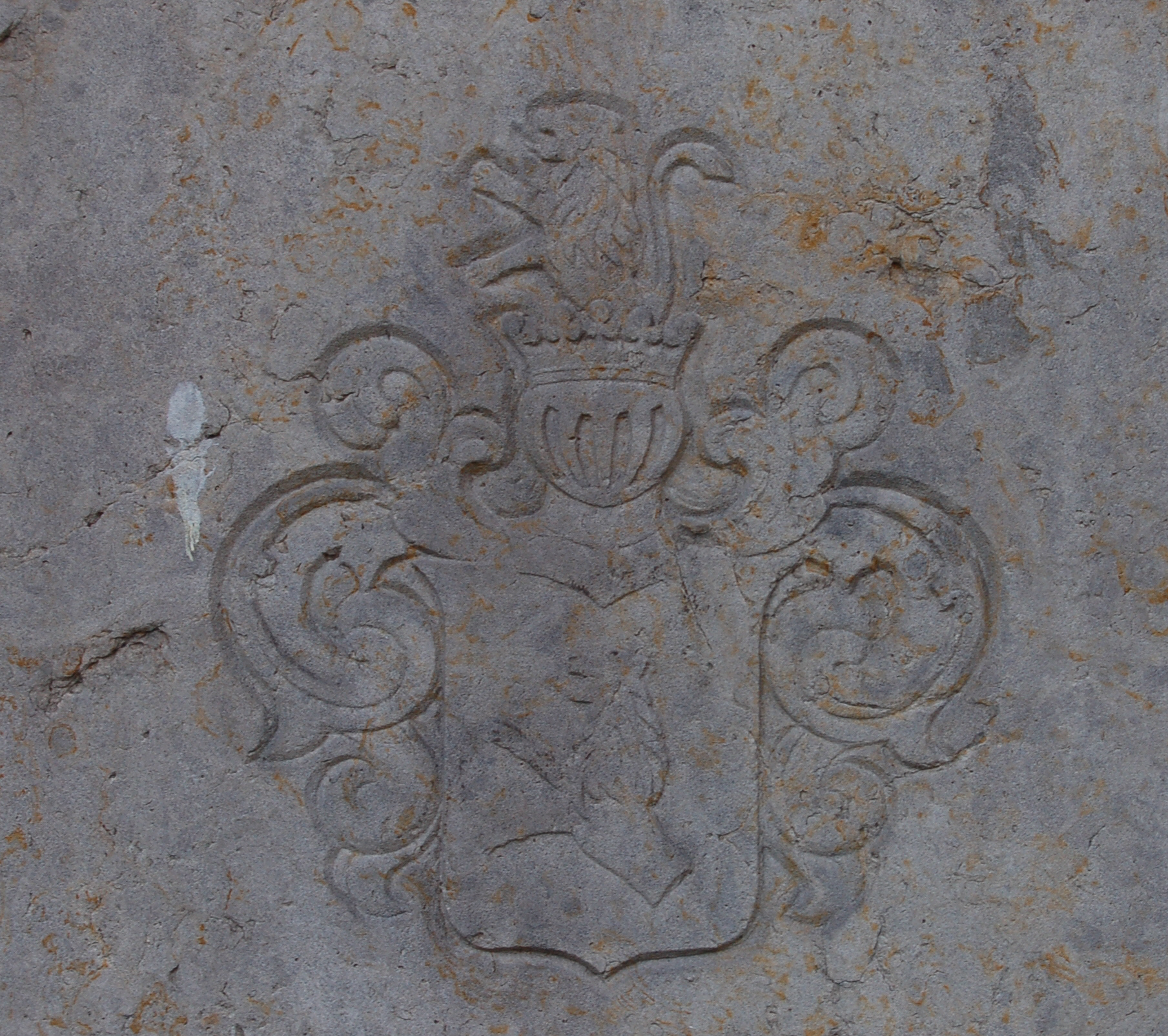 Coats of arms, fron the Nobility von Wedderkop